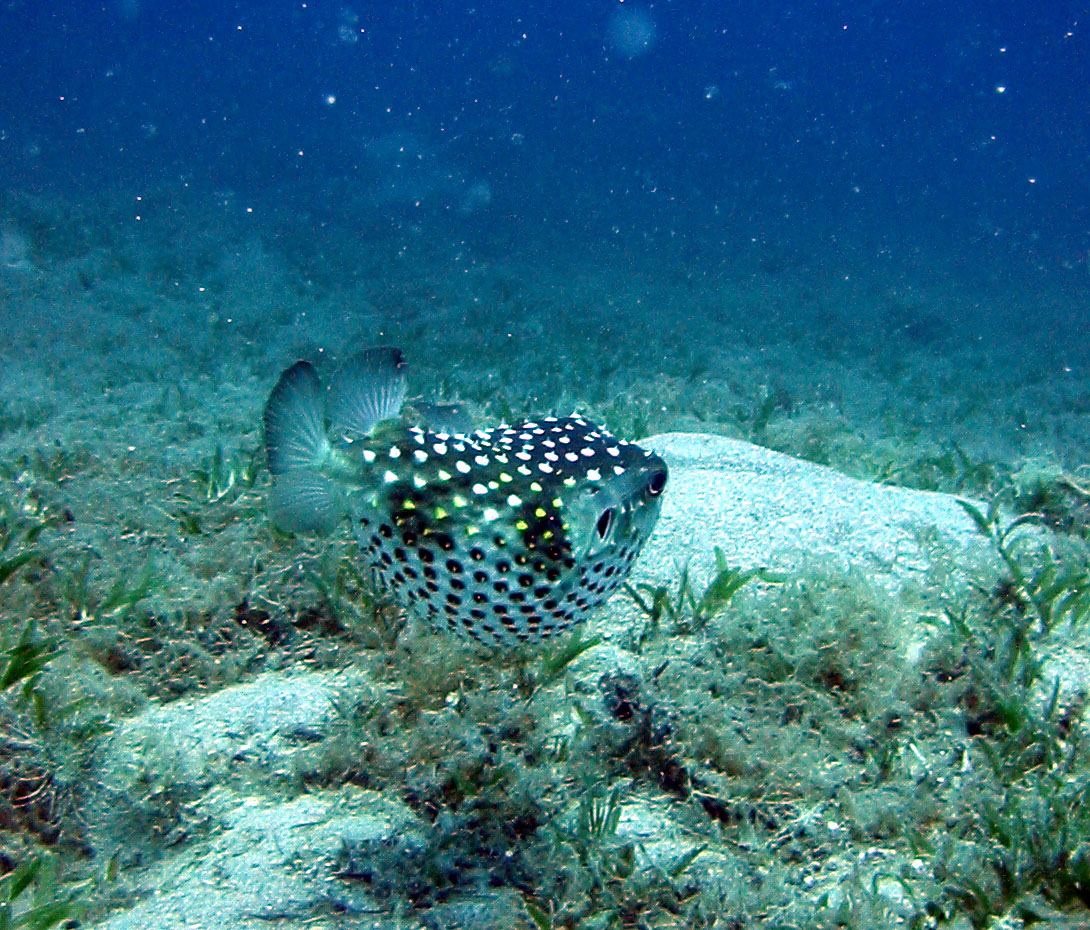 Cyclichthys spilostylus taba egypt colour adjusted in photoshop